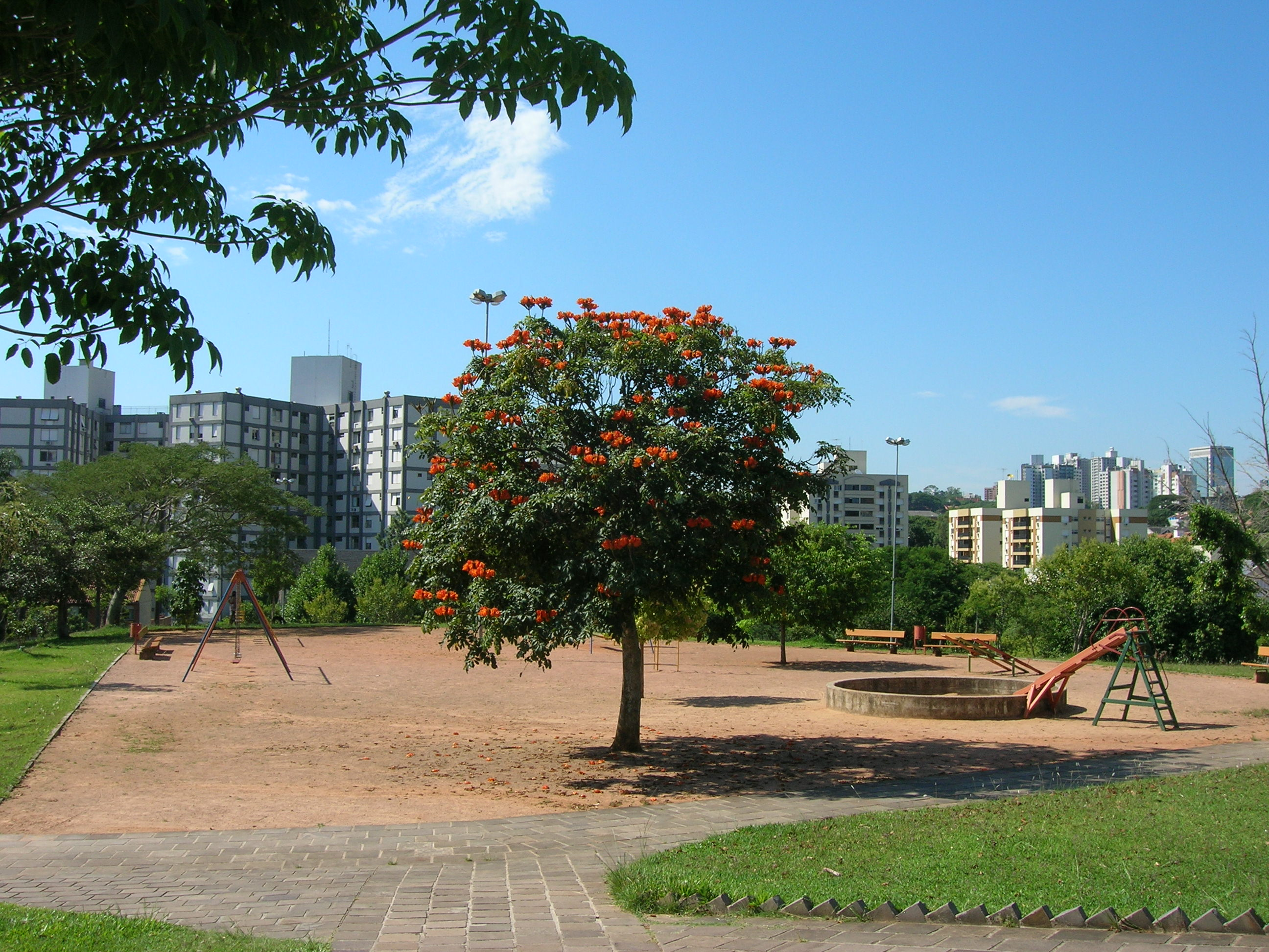 The Professor Leonardo Macedônia Square in Porto Alegre. The orange tree is an African tulip.